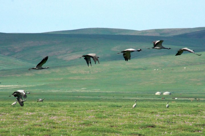 Demoiselle crane flight